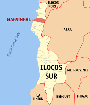 Map of Ilocos Sur showing the location of Magsingal